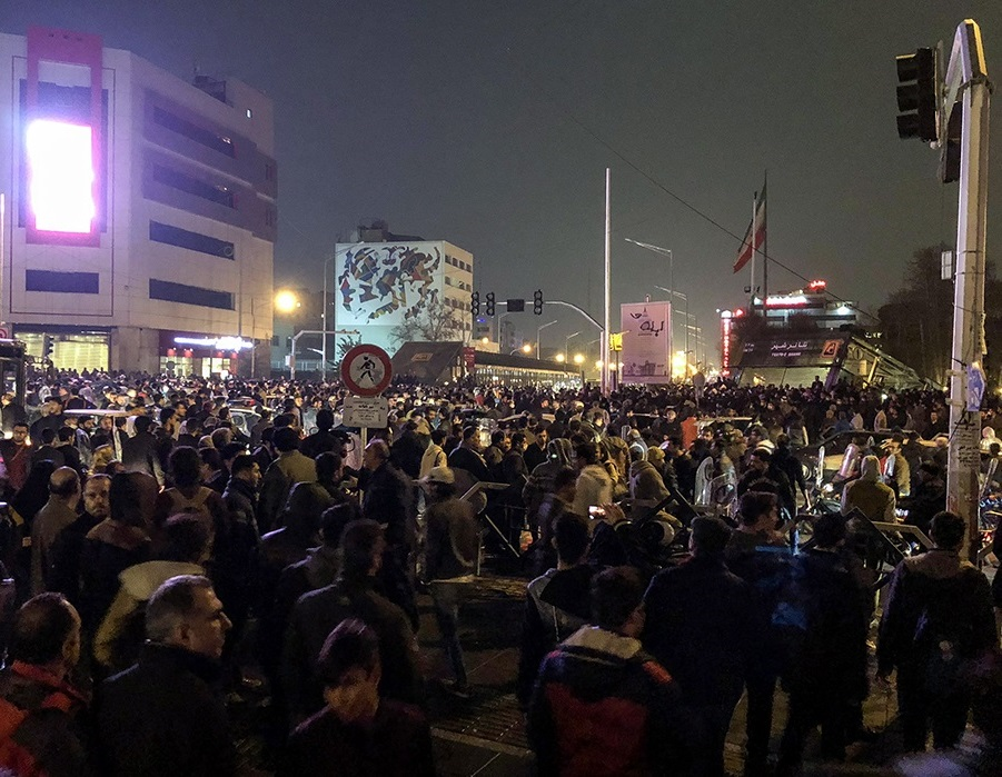 2017–18 Iranian protests in Tehran